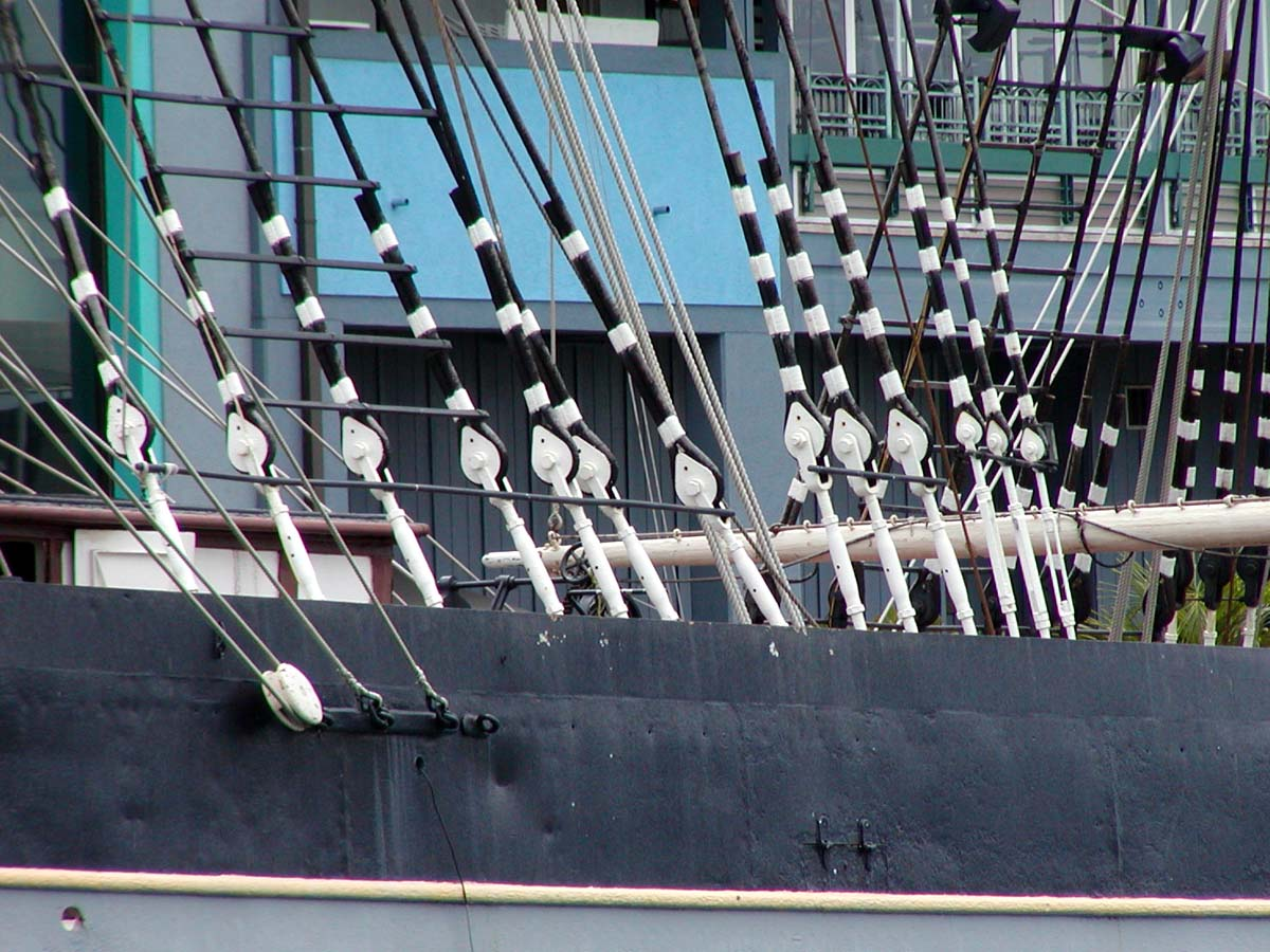 Photo of Falls of Clyde shrouds from outboard, Honolulu